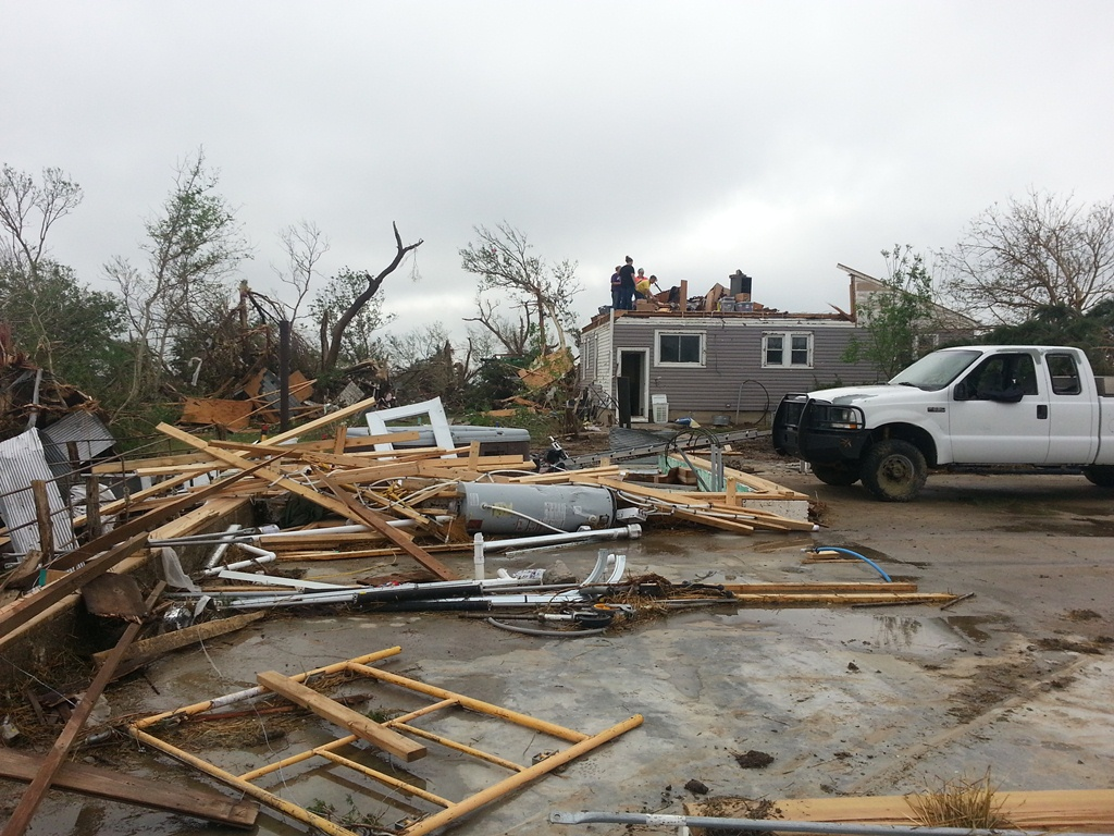 EF3-rated damage to a home north of Lebanon, Kansas, from a tornado on May 27, 2013.